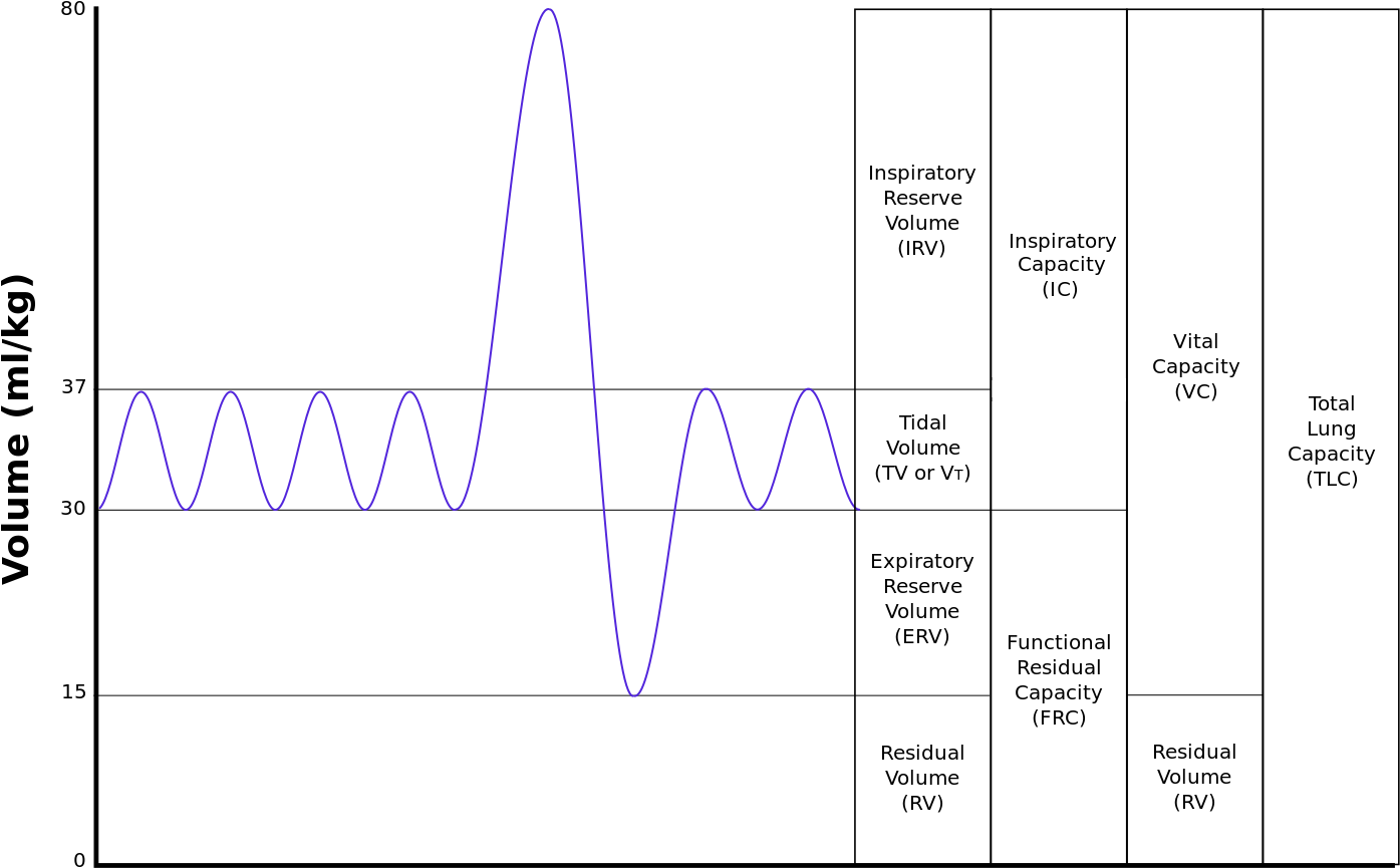 Added the "Inspiration Capacity" (IC) metric, which is the sum of Inspiratory Reserve Volume and Tidal Volume. In the last iteration of this diagram, information was repeated. I replaced the repeated information with this IC metric.